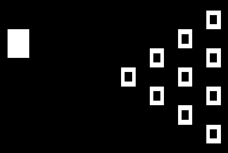 Screenshot of video game Bowling for the RCA Studio II